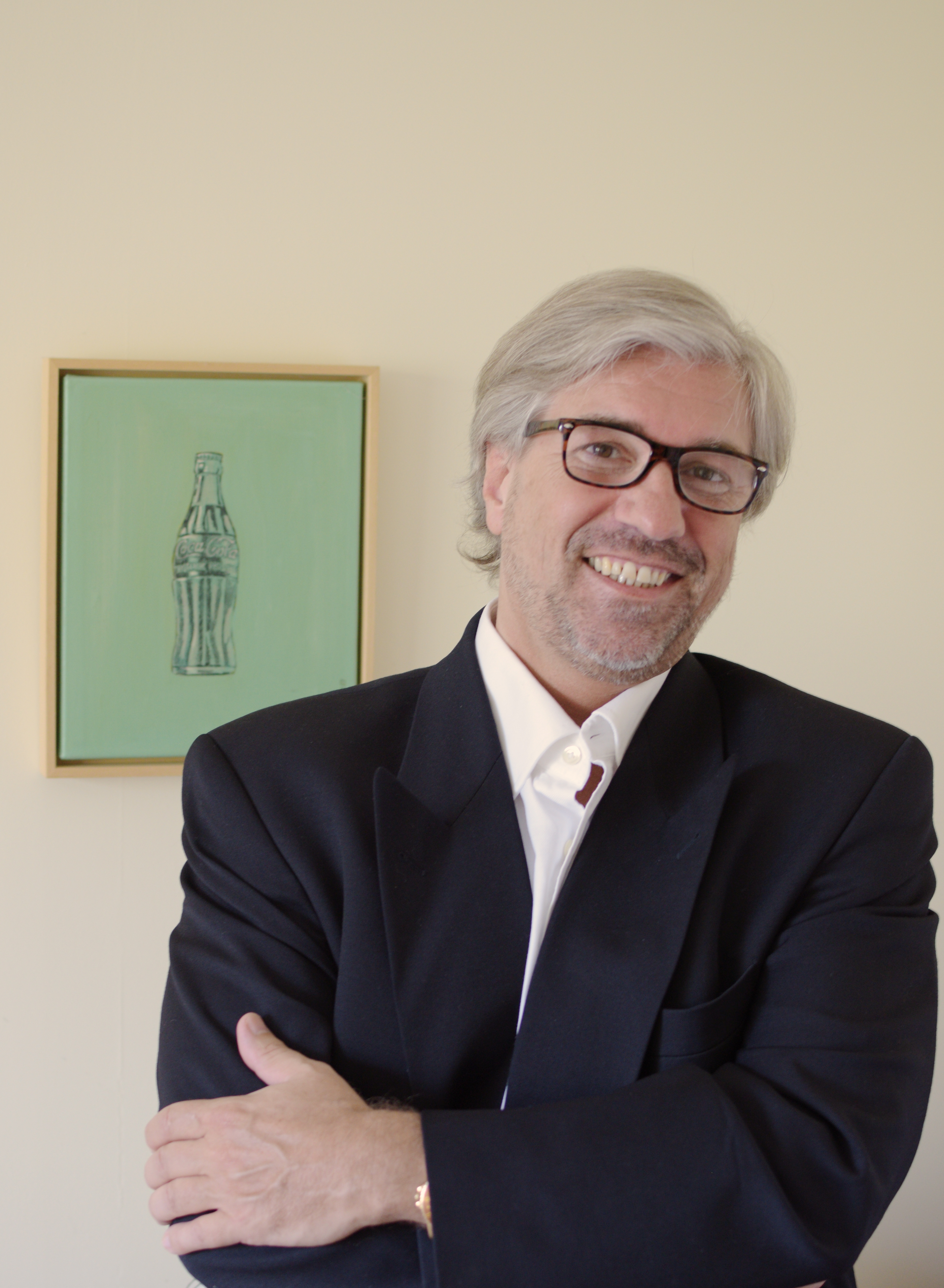 Roland Muri, 2015